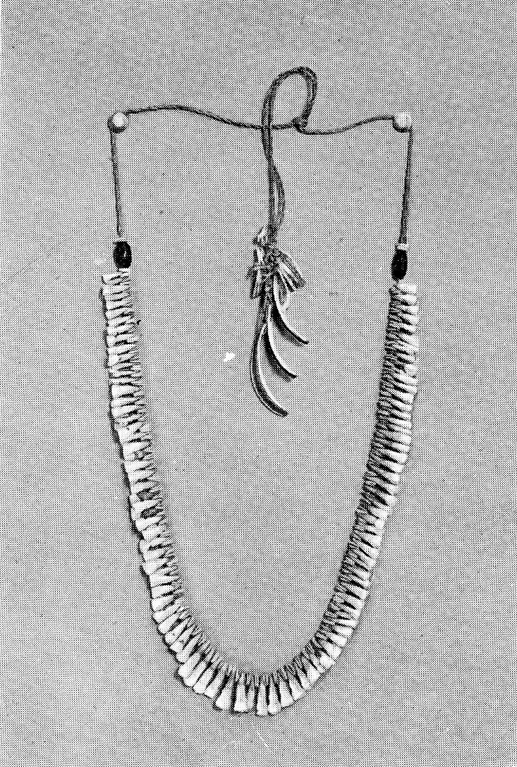 Huitoto necklace allegedly made of human teeth